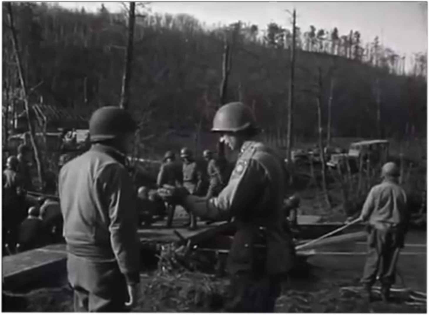 US General James Gavin (right) at a Pioneer Bridge near Kall, February 1945.